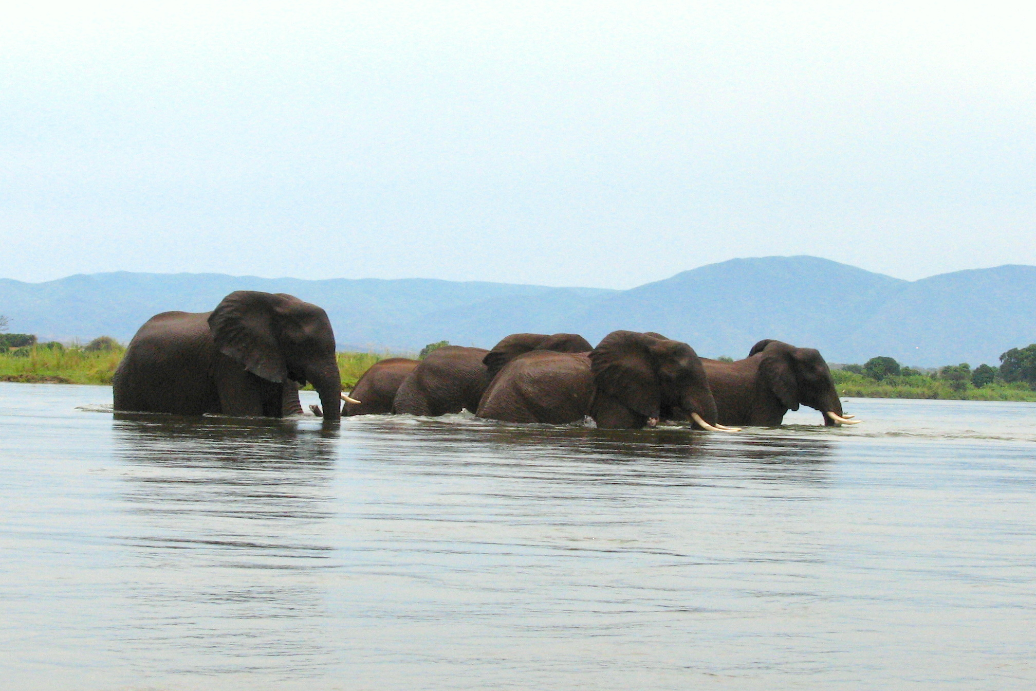 Zambezi – Elephants crossing the river 12.11.2009